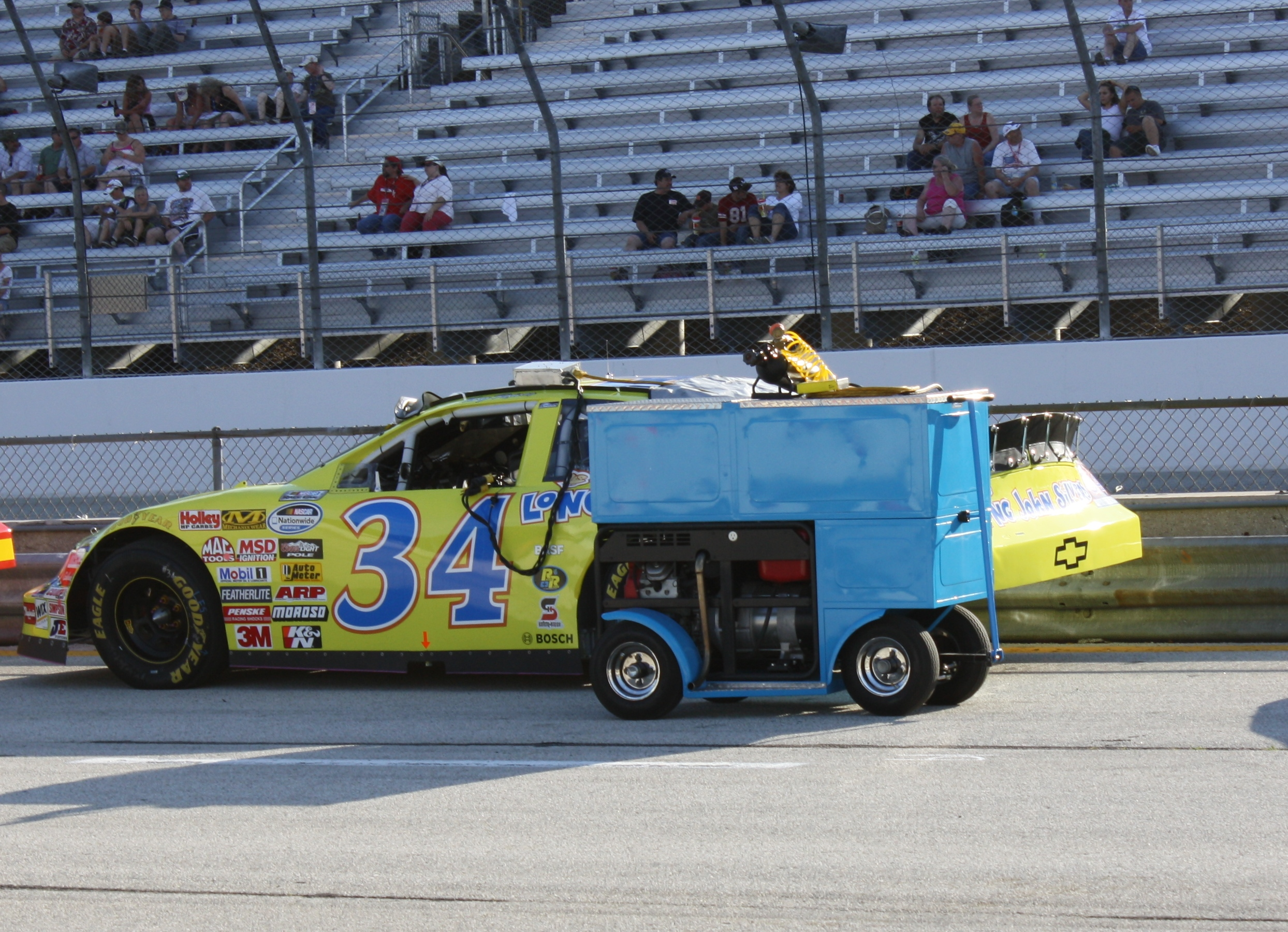 NASCAR driver Tony Raines Chevrolet at the 2009 Northern 250 Nationwide Series race at the Milwaukee Mile.